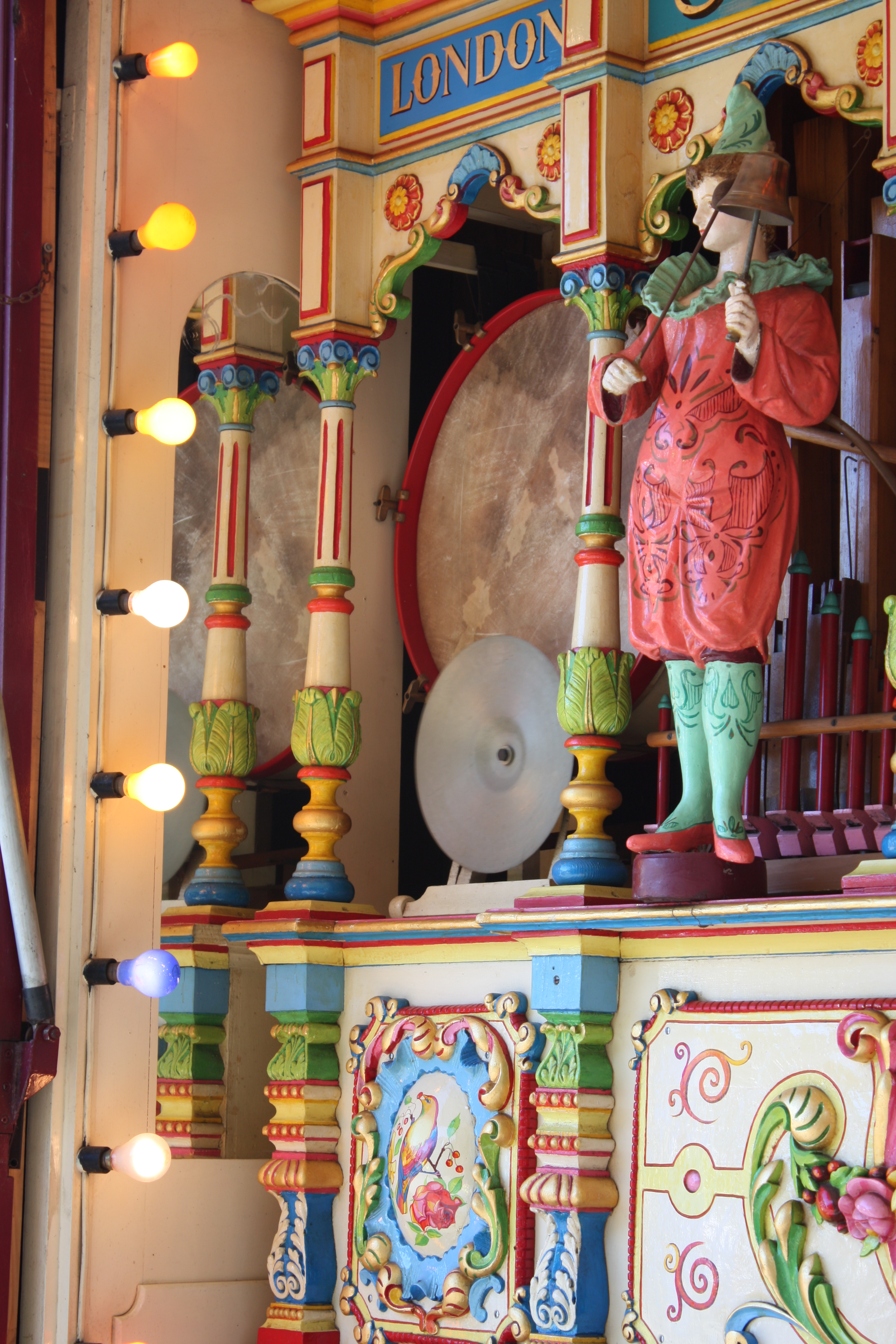 The Bass drum, cymbal and bell.